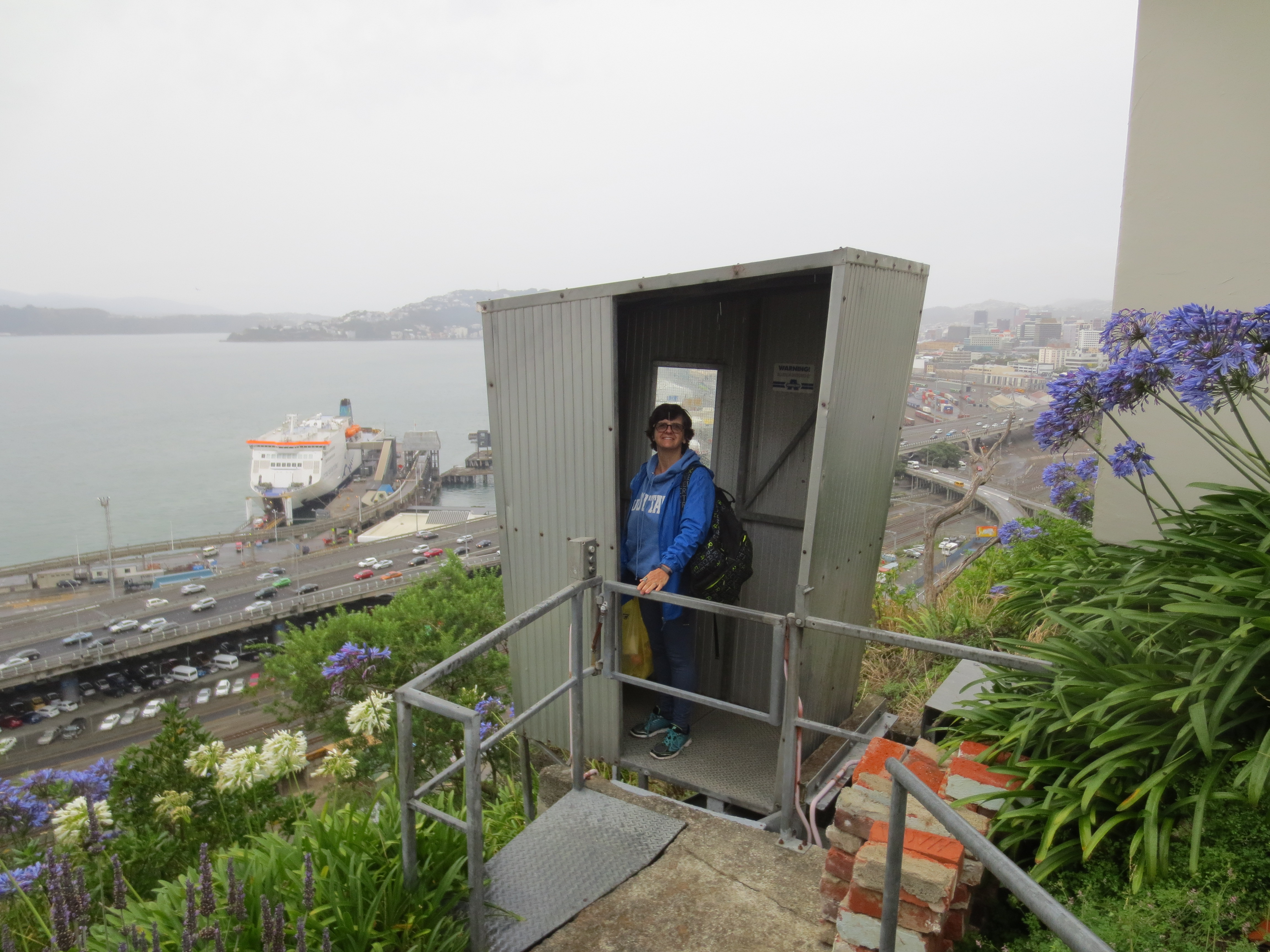 Funicular - Upper Terminus Access to private dwelling in Wadestown, Wellington, NZ